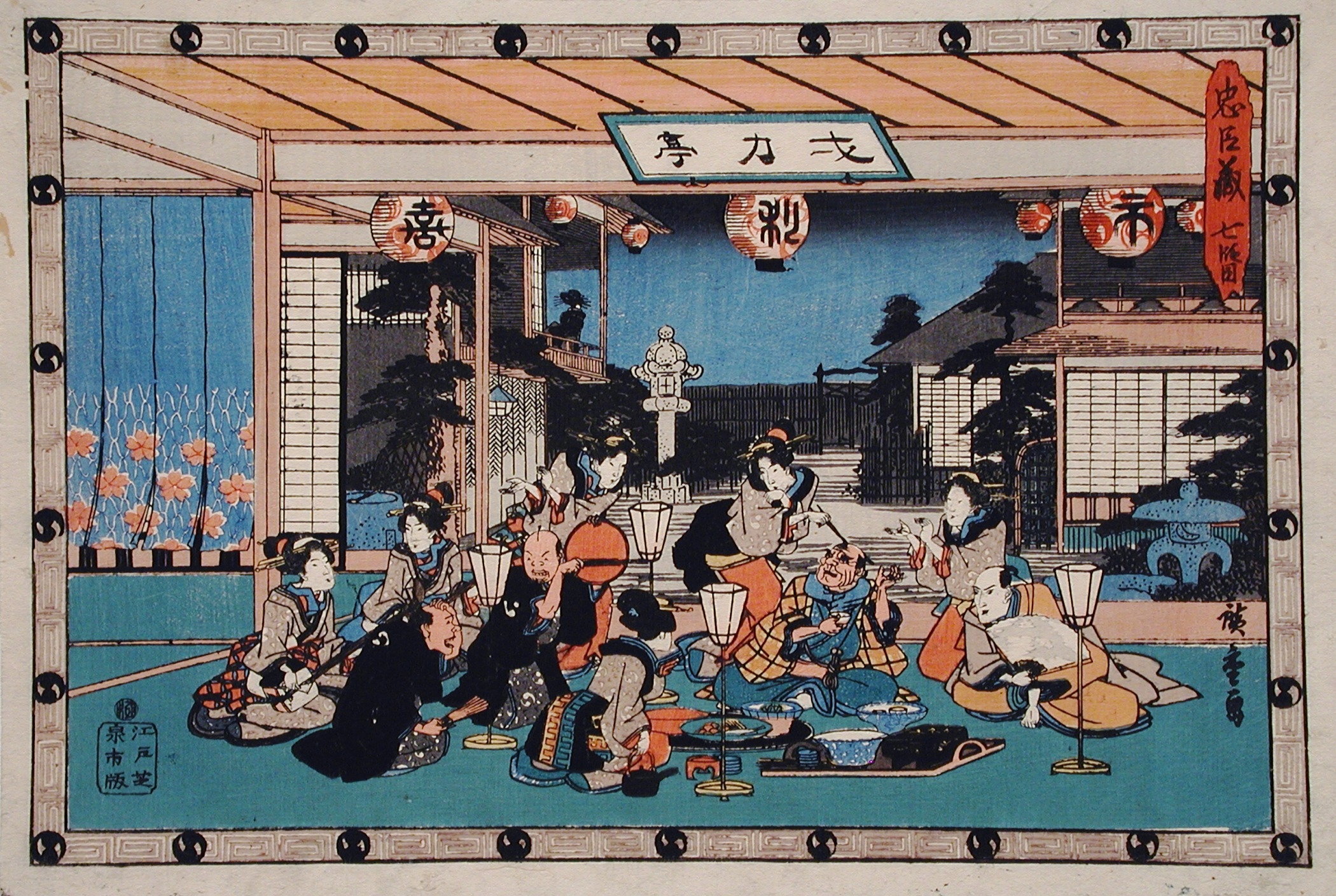 Japan, circa 1835-1839 Series: The Storehouse of Loyal Retainers Prints; woodcuts Color woodblock print Image: 9 5/16 x 13 15/16 in. (23.6 x 35.4 cm); Sheet: 10 x 14 13/16 in. (25.4 x 37.6 cm) Gift of Dr. Harvey Eagleson (M.66.35.52) Japanese Art